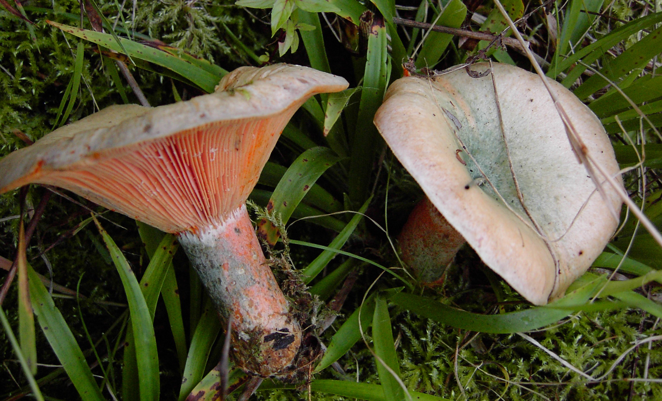 Two older fruiting bodies of L. deterrimus with funnel-shaped and greenish discolored cap